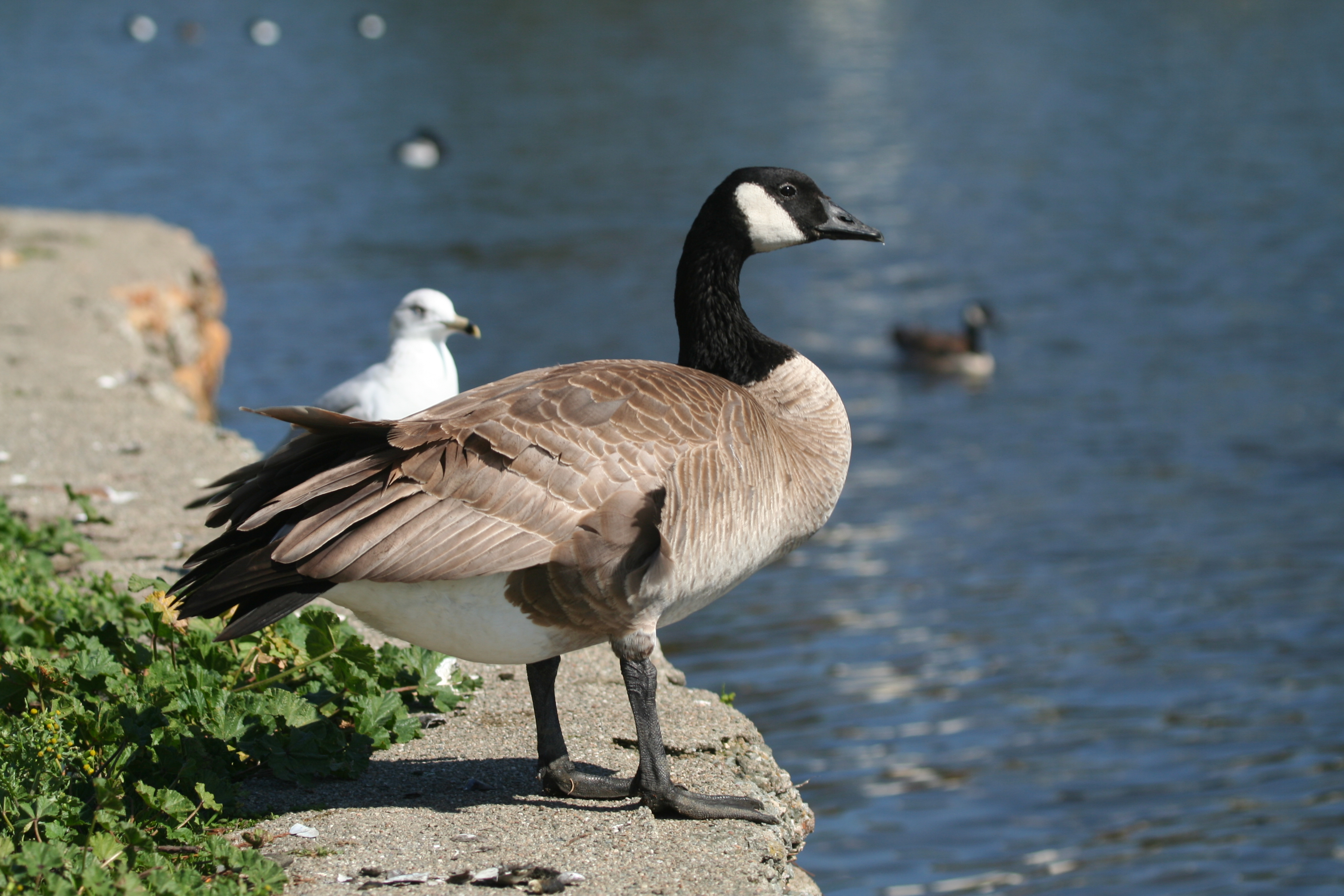 Photographed by and copyright of (c) David Corby (User:Miskatonic, uploader) 2006